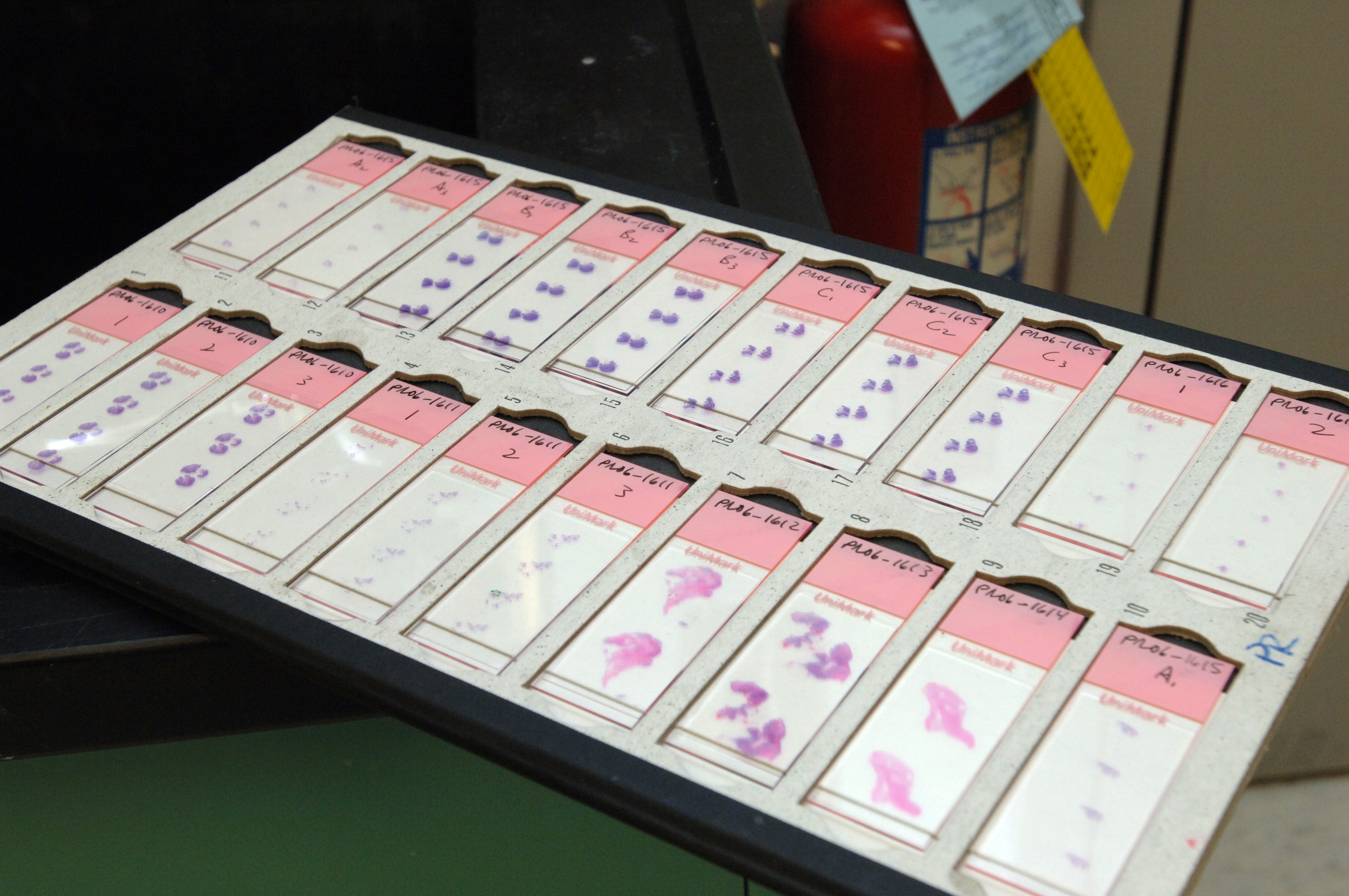 Stained and mounted slides in the ubiquitous 20-slide folder. The folder is delivered to the pathologist, who examines the slides with a microscope and makes a pathologic diagnosis. In US labs, the slides are kept for at least ten years before being trashed. In that time, some fading does occur, but they are still readable. Some labs never throw out old slides but store them indefinitely.